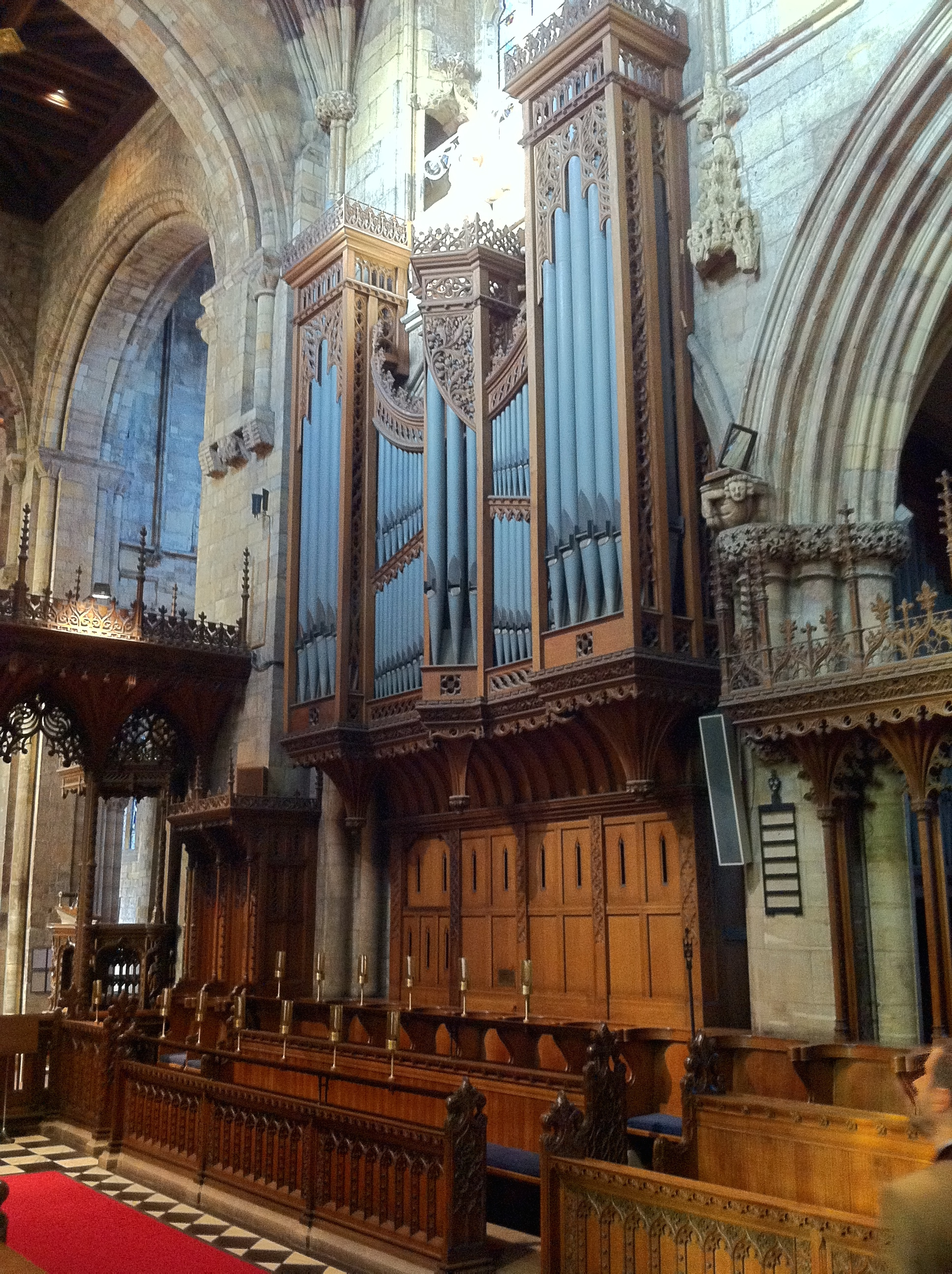 Dating from 1909